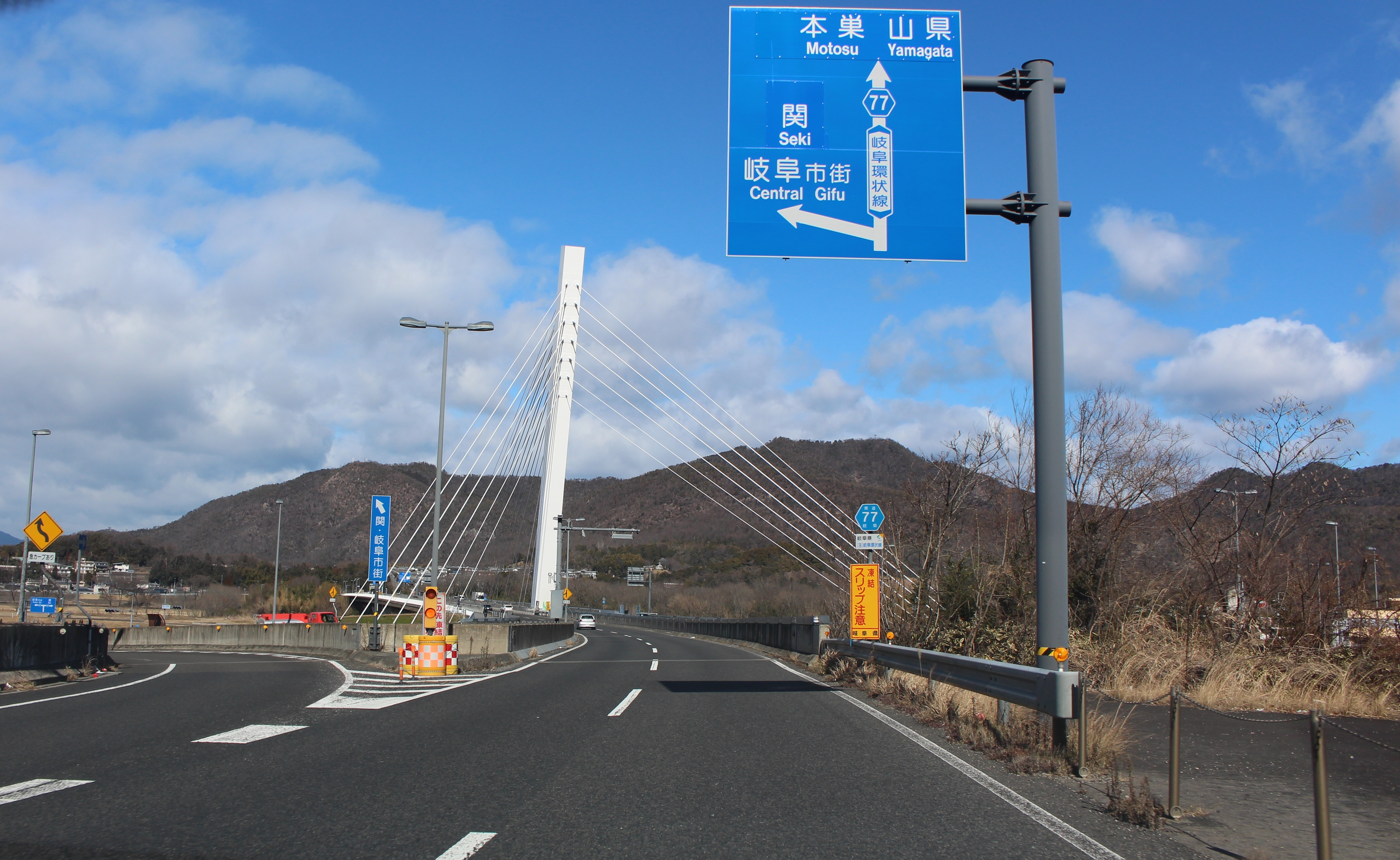 Ukai Bridge over Nagara River and Mount Dodo in Gifu city, Gifu prefecture, Japan.